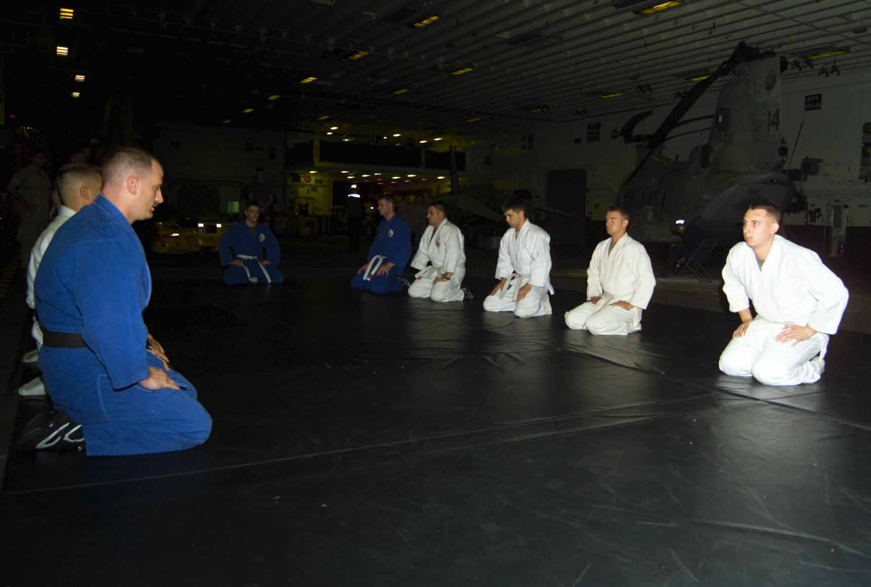 Members of the USS Nassau Judo class prepare mentally before their workout session begins.